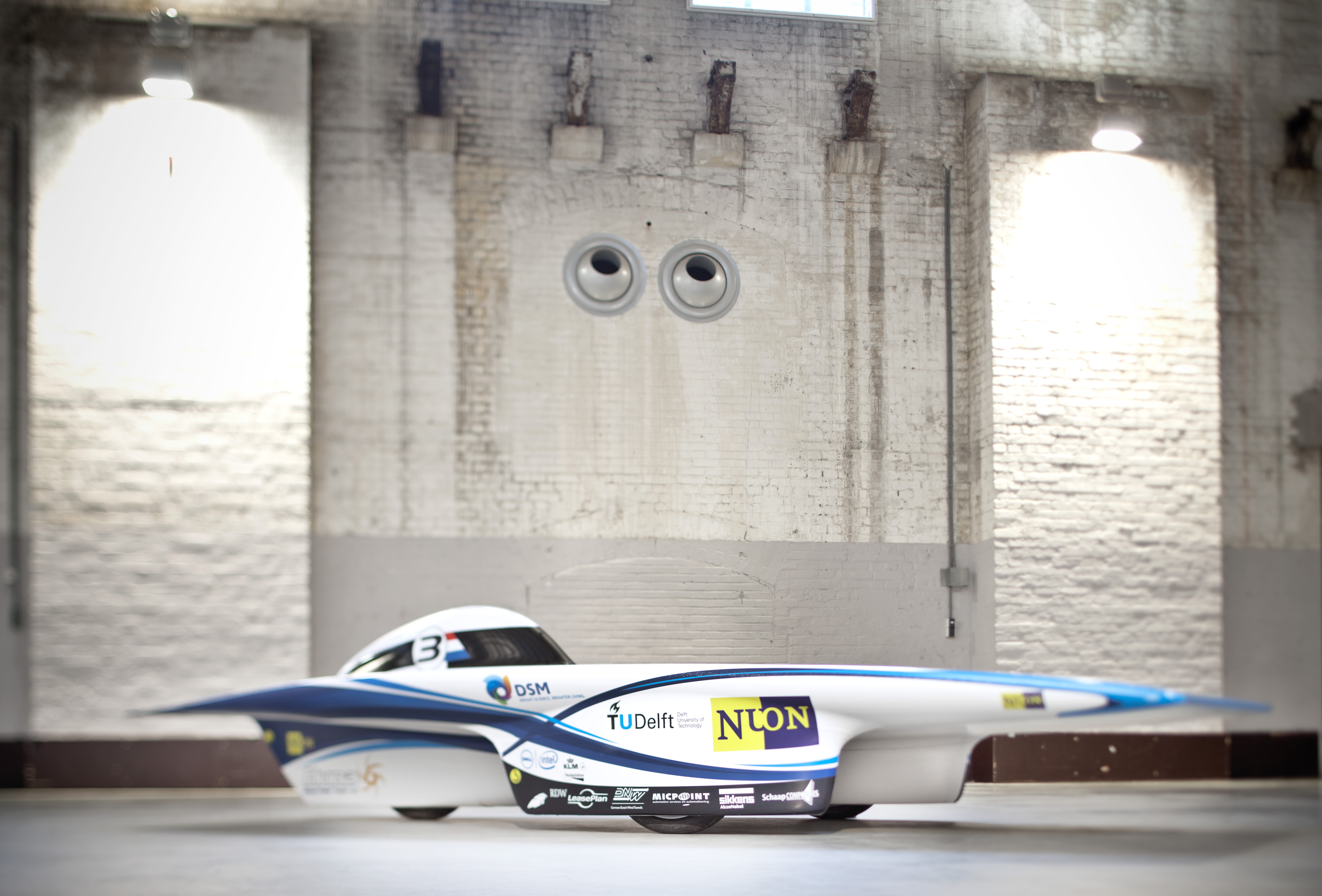 A presentation photo of Nuna 6